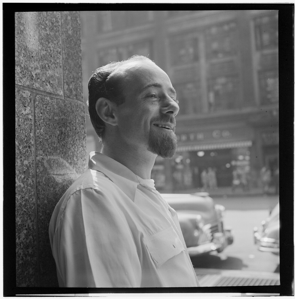 Dave Lambert. Photograph by William P. Gottlieb